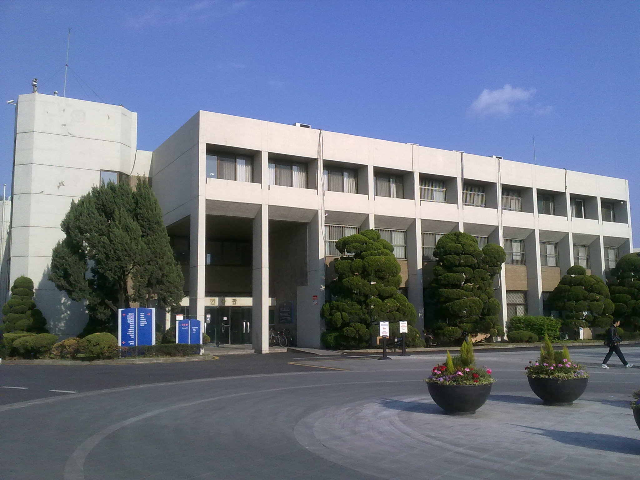 Cheonnong Hall, the University of Seoul.